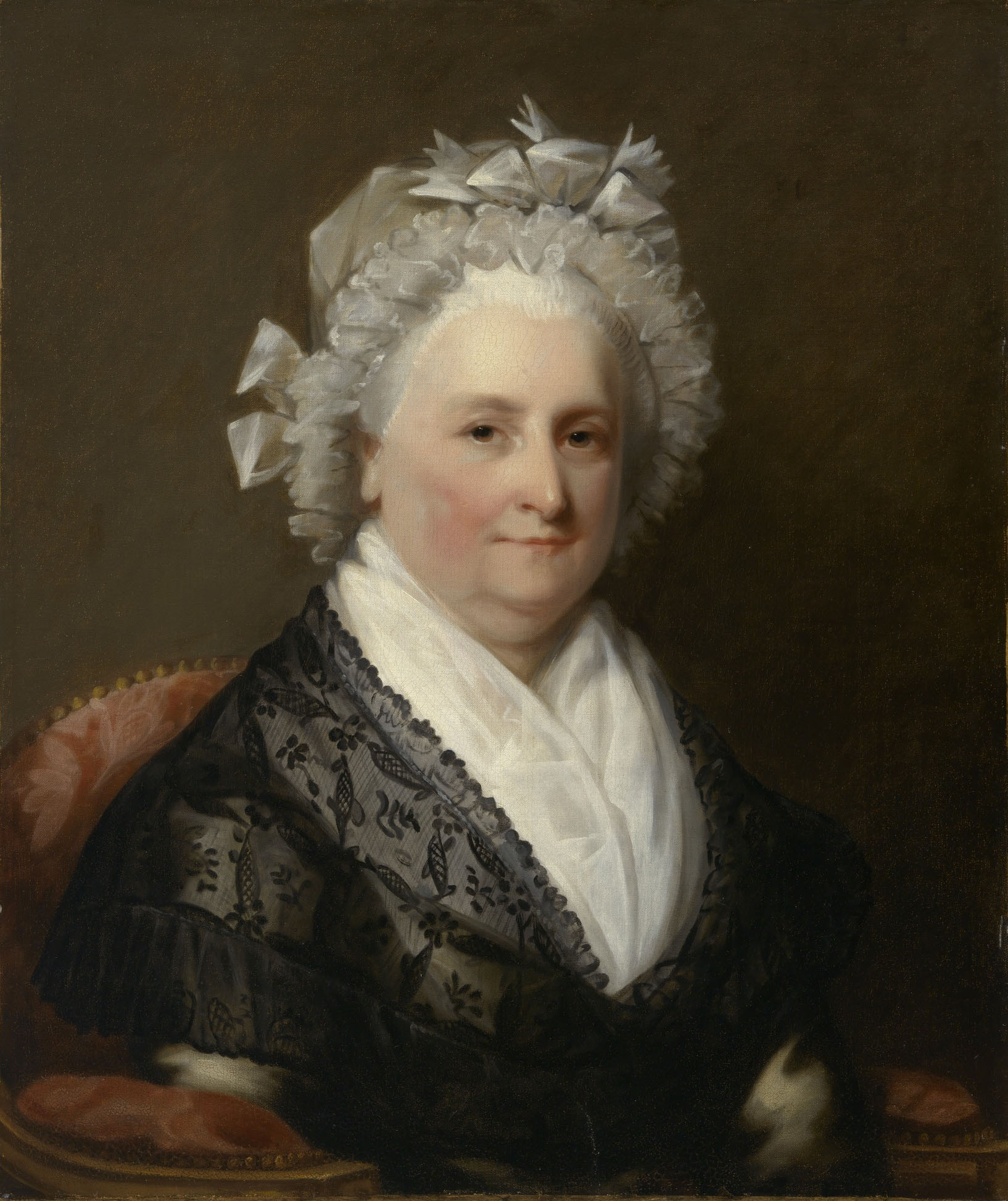 Martha Washington (1731-1802), First Lady of the United States from 1789 to 1797 during the presidential tenure of her husband, President George Washington